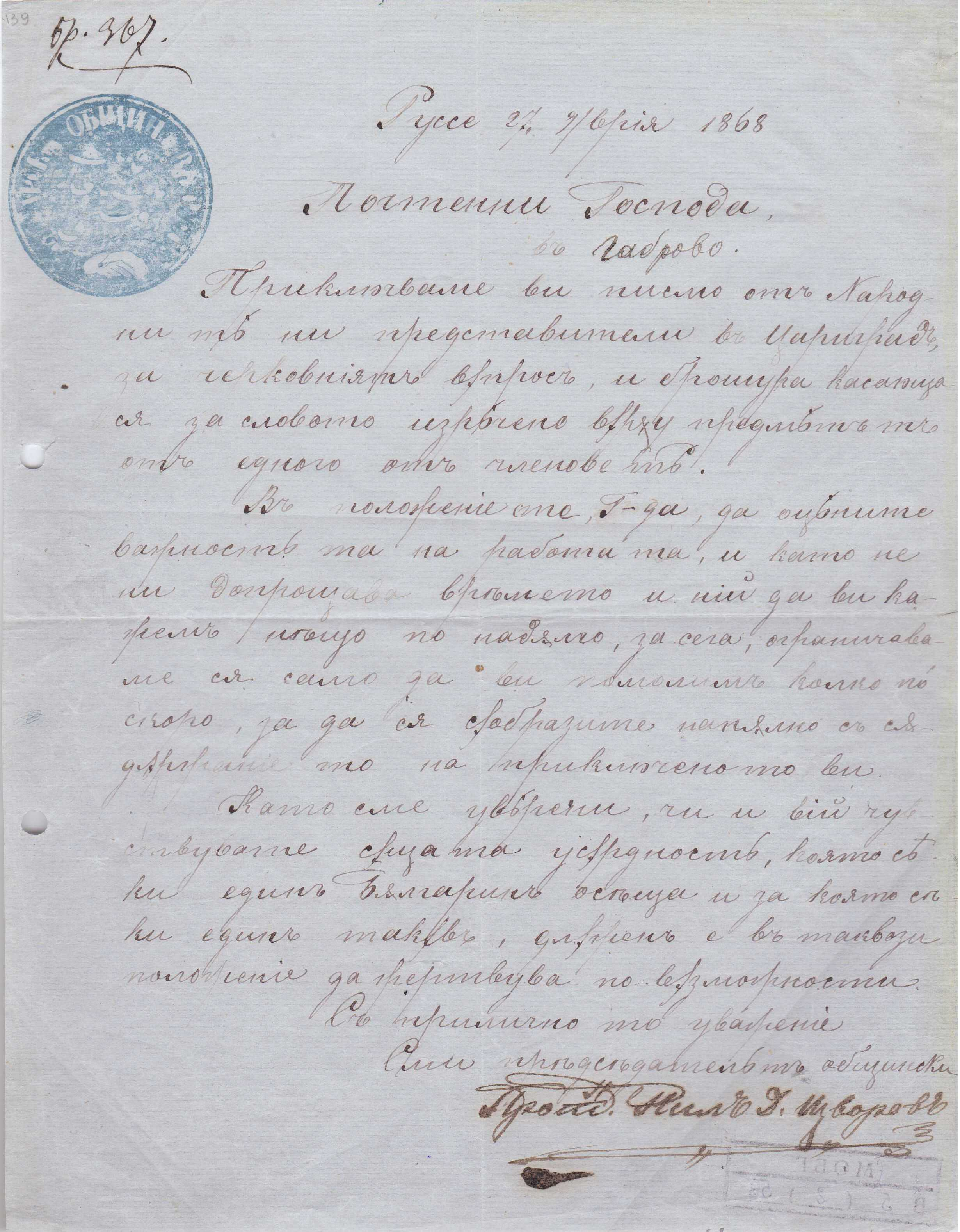 Letter by Nilus Izvorov to Gabrovo Bulgarian Municipality.